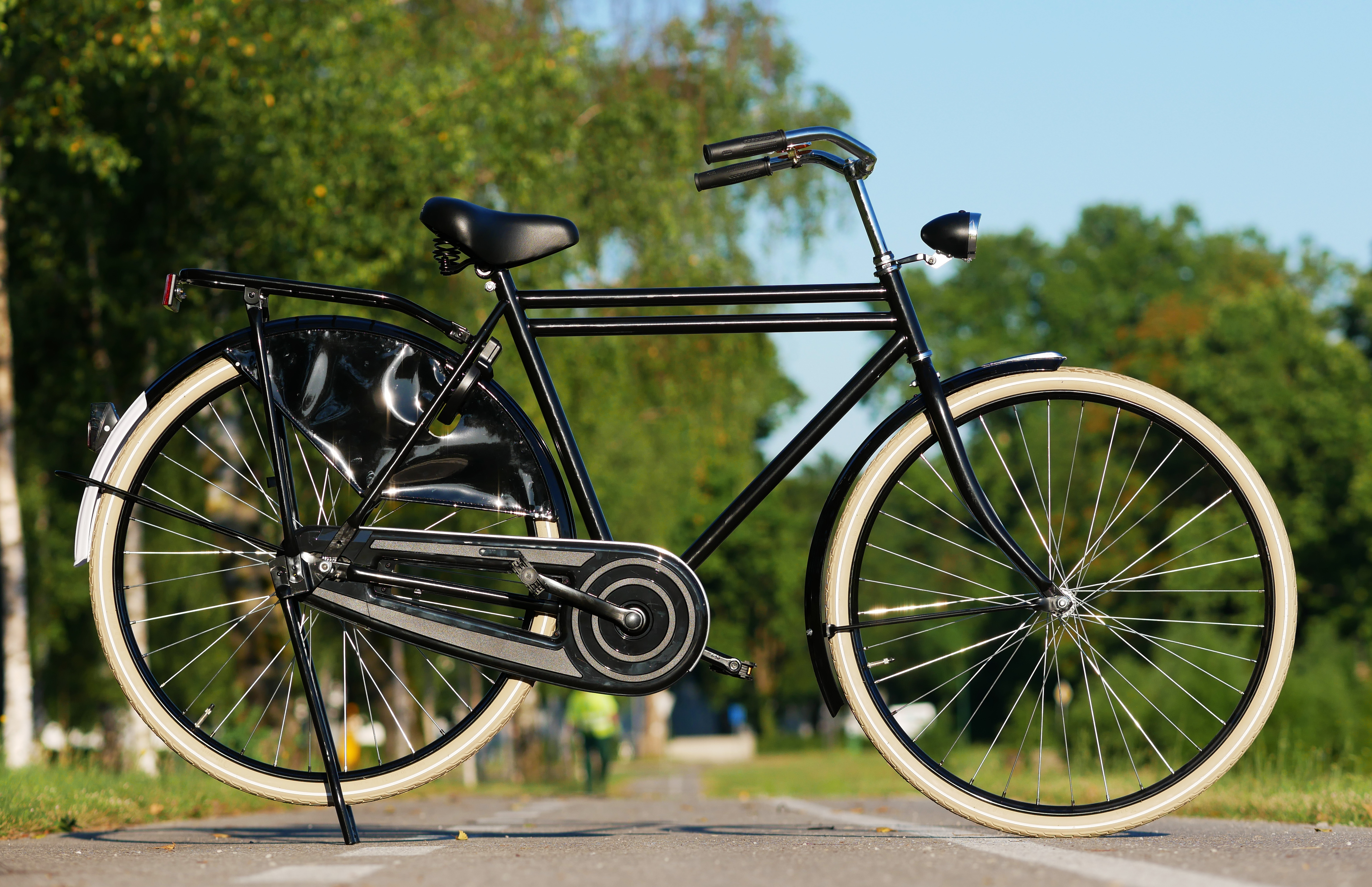 “Dutch bicycle” Avalon made of steel, men's frame, coaster brake, spokes 13, Thun crankshaft, Humpert wheel, cream tires - 28×1.5 inches.